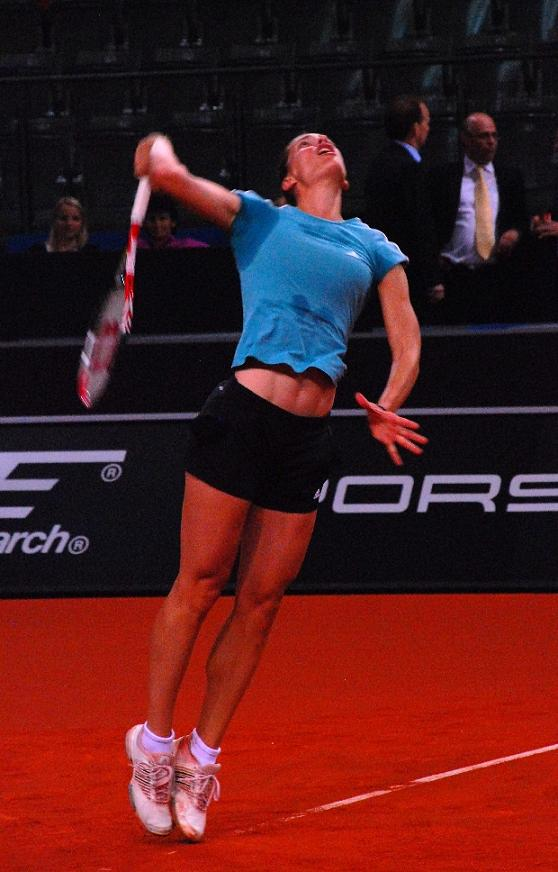 Andrea Petković serving at the 2010 Stuttgart Porsche Grand Prix